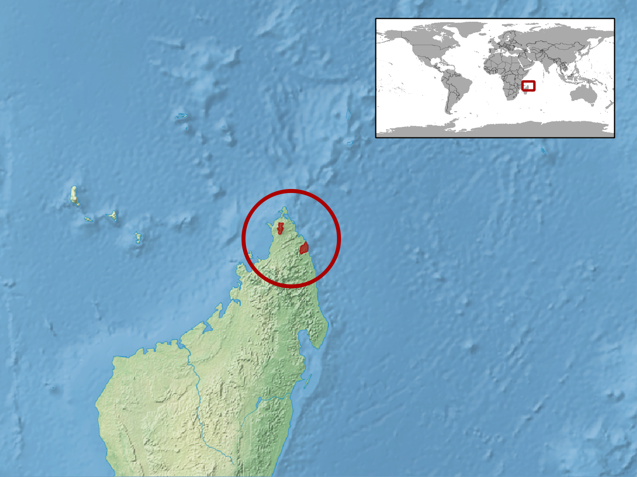 geographic distribution of Phelsuma dorsivittata syn. Phelsuma lineata dorsivittata (Native: Madagascar)